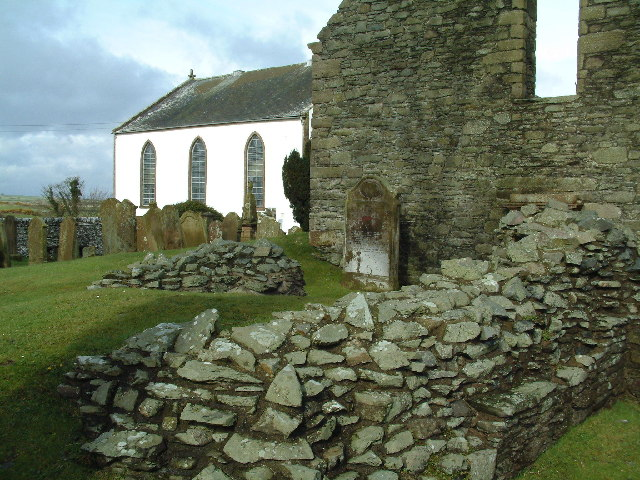 St Ninian's Chapel, Isle of Whithorn, Scotland